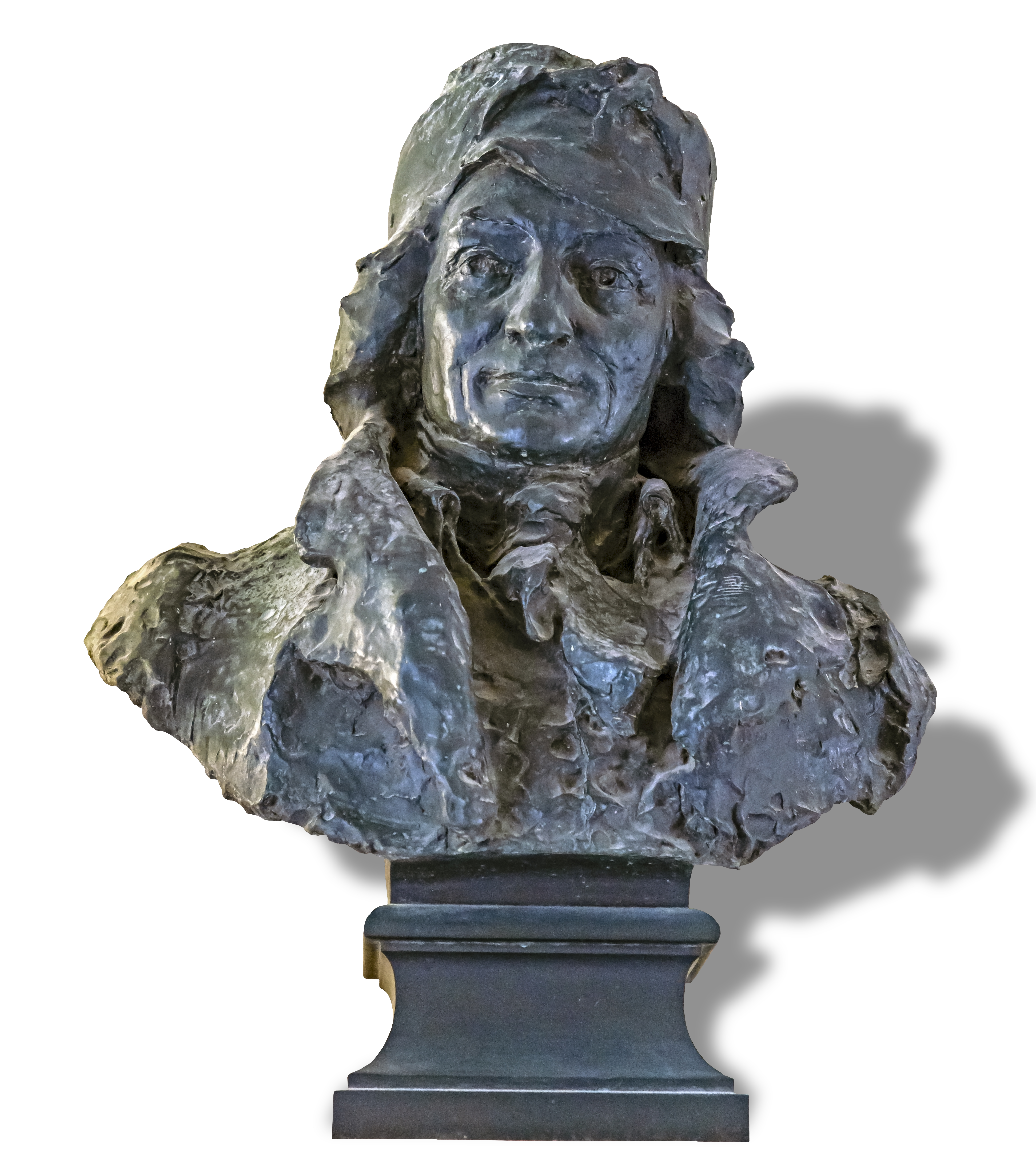 Depicted person: Jacques Gamelin – French painter